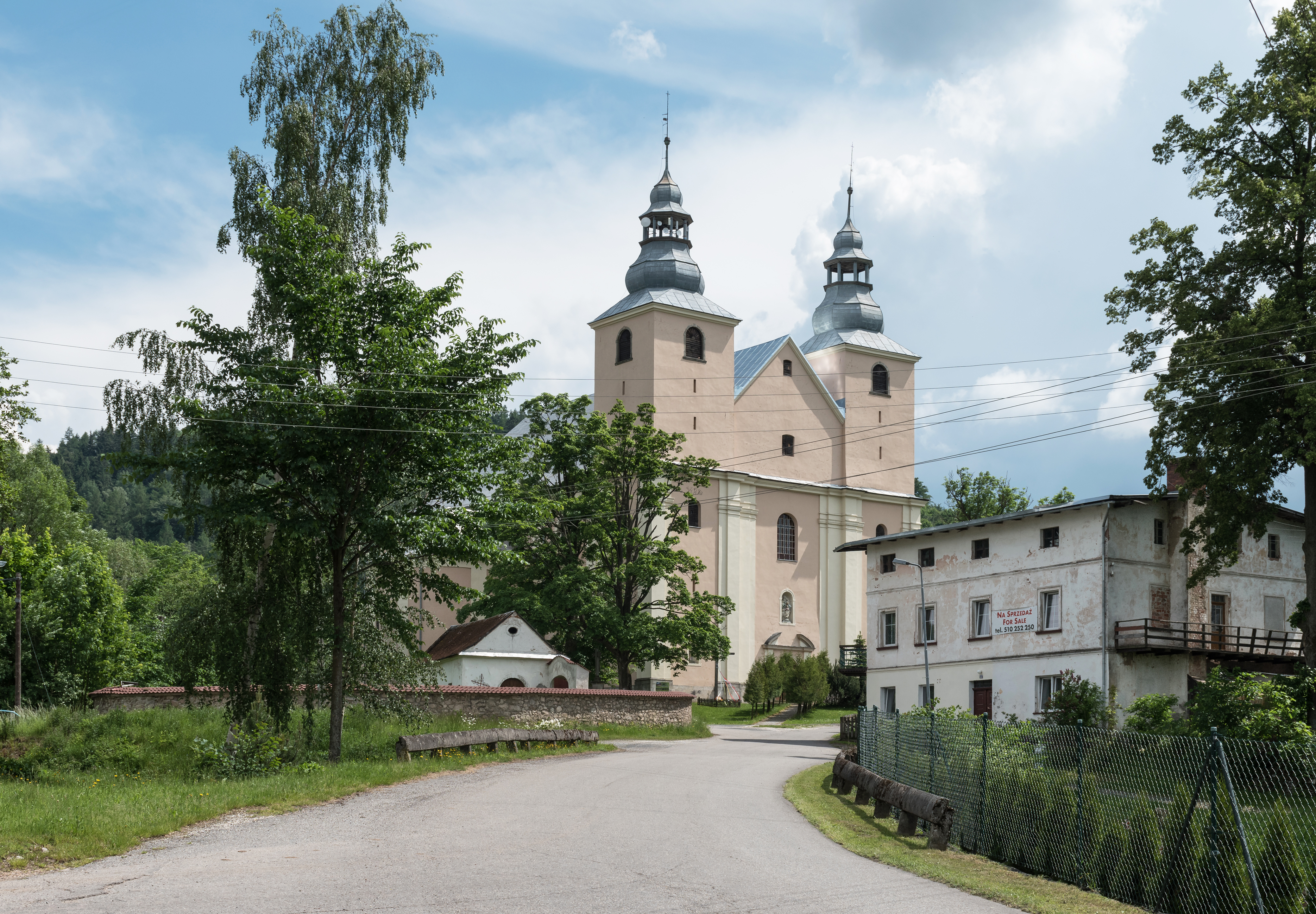 Church of the Assumption in Nowa Wieś